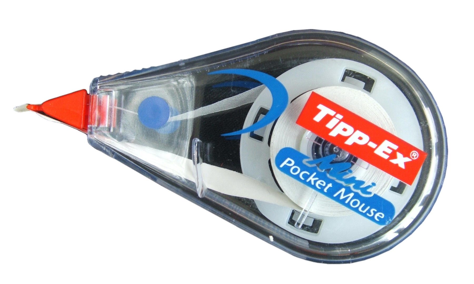 Correction tape